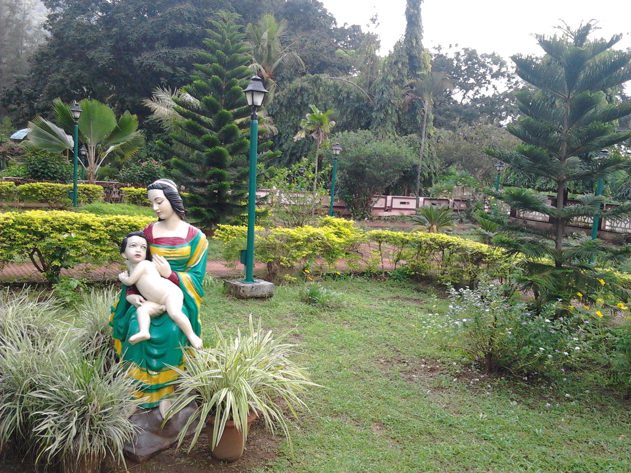 The Garden near the Pothundy Dam has many statues.